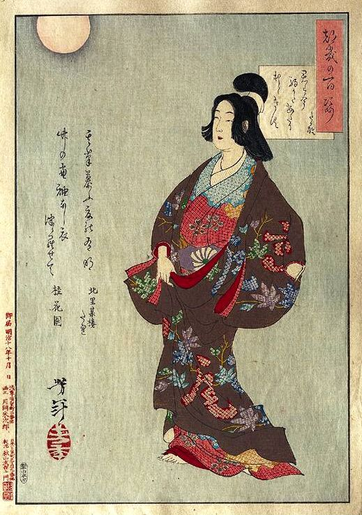 The Courtesan Takao